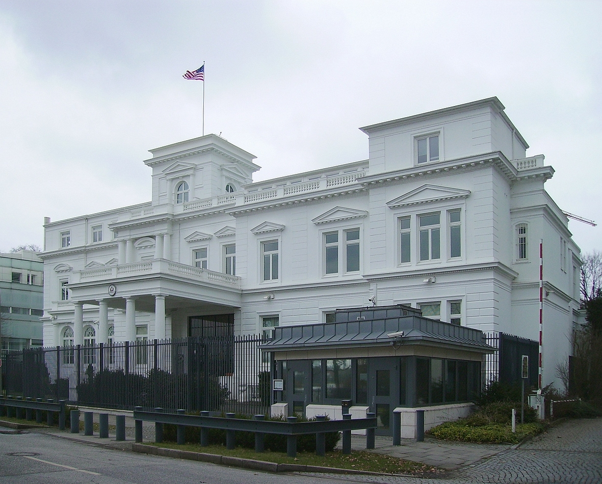 The Consulate Gneral of the USA in Hamburg